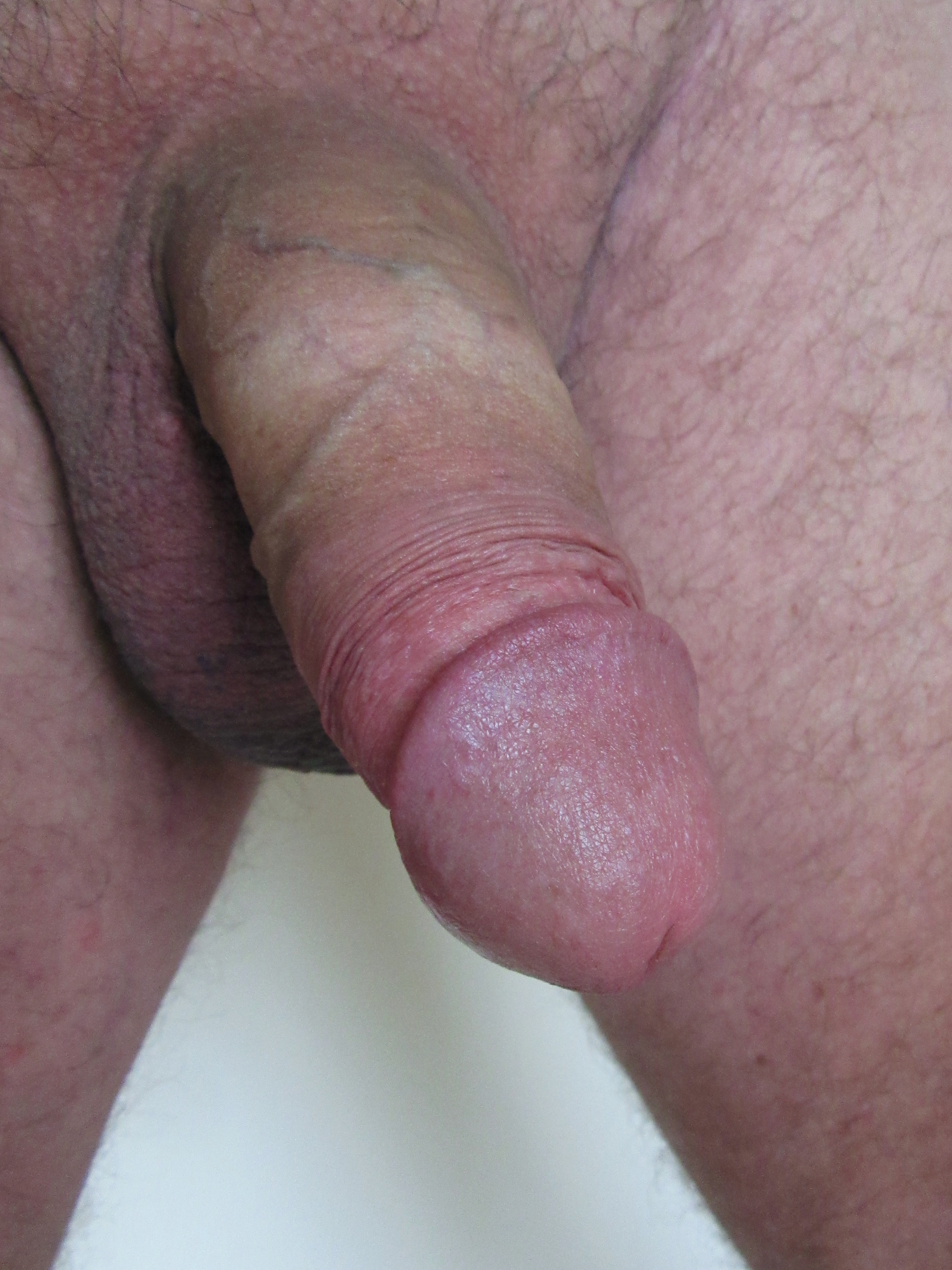 Evaluation of the foreskin retractability during the physical examination